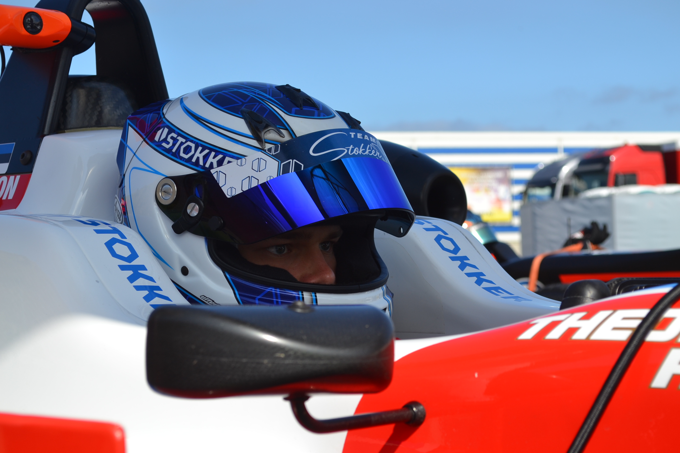 Ralf Aron during the 2018 FIA Formula 3 European Championship at Zandvoort.